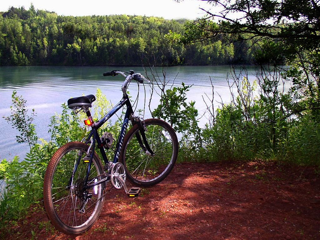 Switchback Trail overlooking Pennington Mine Lake, Cuyuna Country State Recreation Area, Minnesota, USA